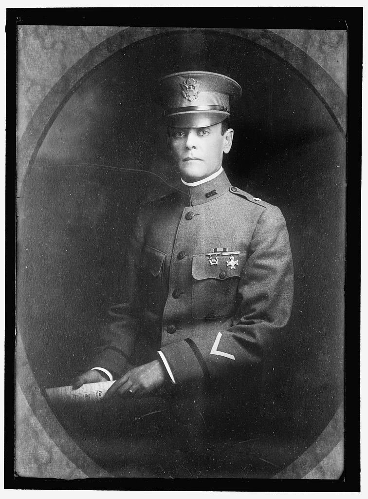 Guy V. Henry, Jr